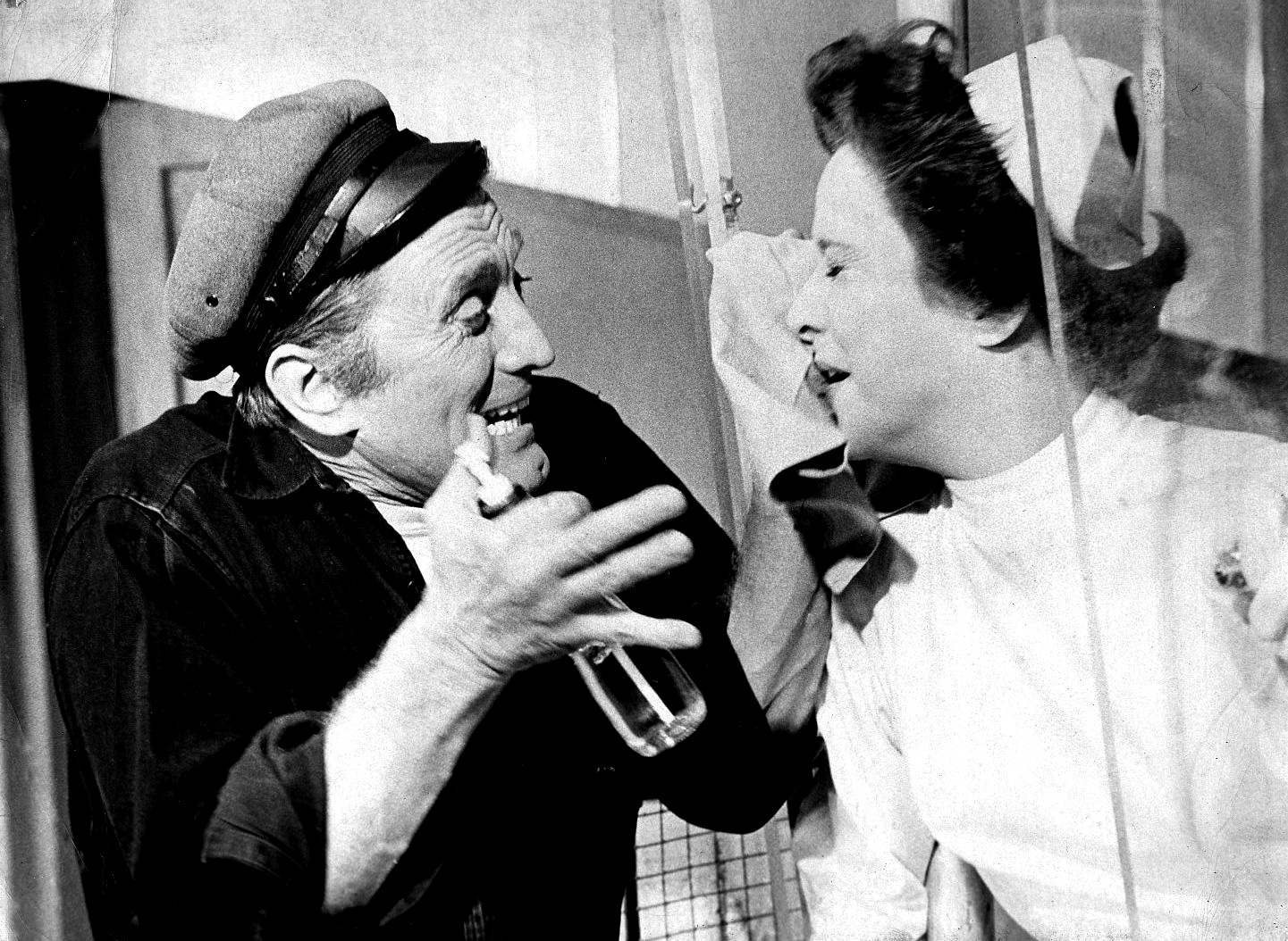 Publicity photo of Kirk Douglas and joan Tetzel in stage play, One Flew Over the Cuckoos's Nest.